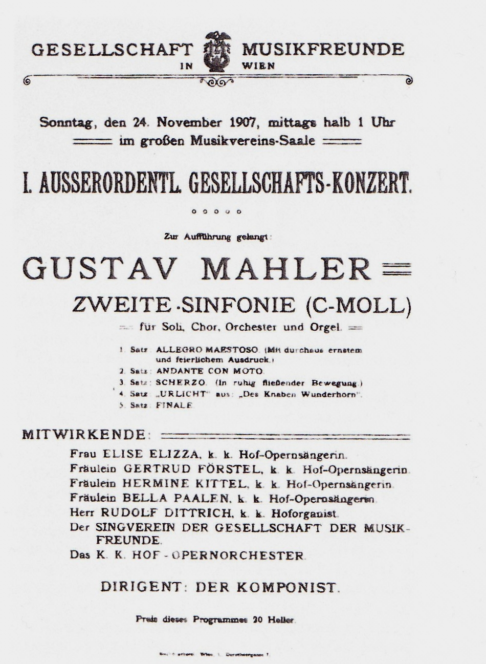 The programme for Gustav Mahler's farewell concert in Vienna, 24 November 1907 - a performance of his own Second Symphony